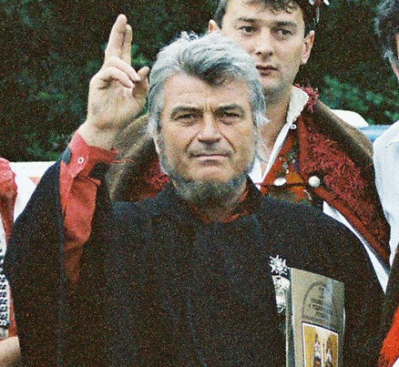 This is my photo of Serbian painter Milić of Mačva. The photo was taken in 1990 in Subotino Brdo, Lika.